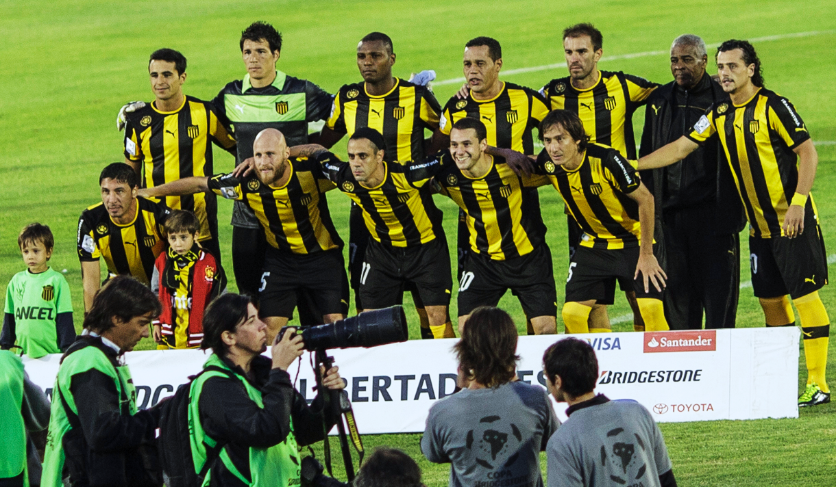 Peñarol starters against Vélez in Montevideo. Group phase of Copa Libertadores 2013.